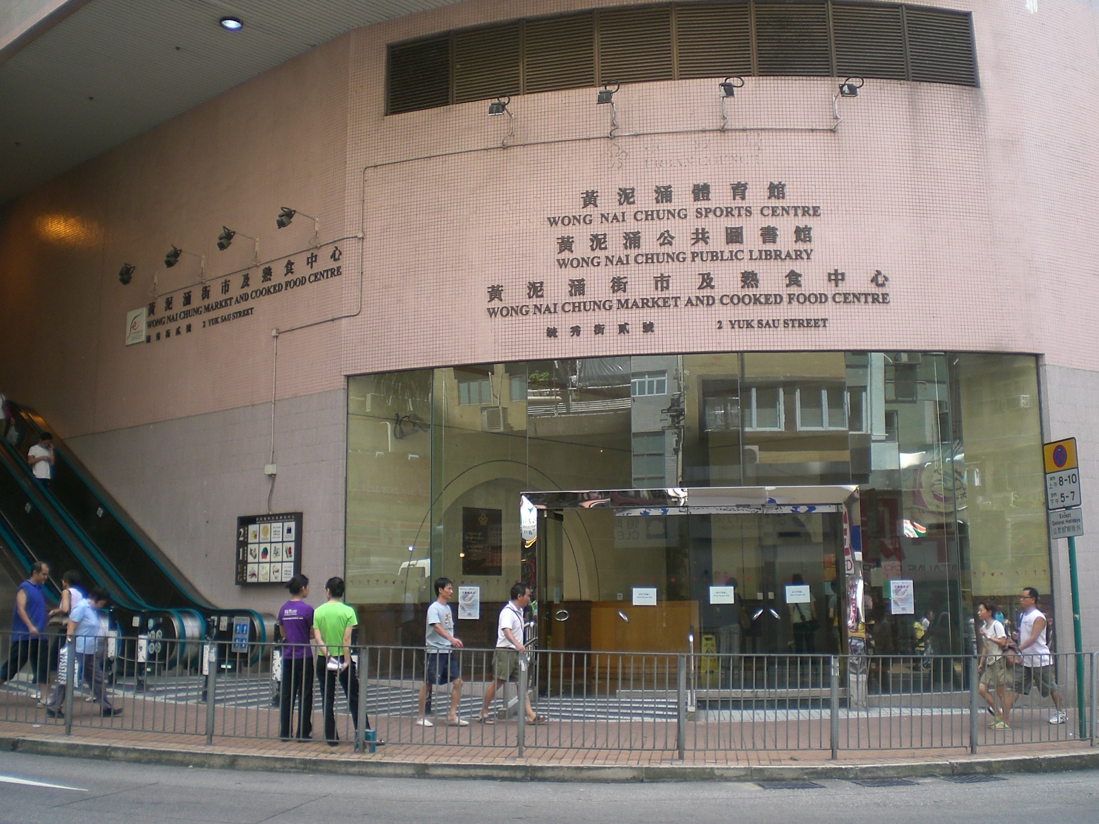 跑馬地zh:成和道黃泥涌市政大廈